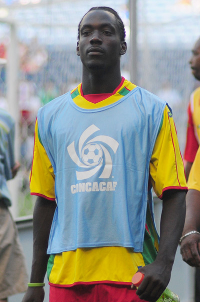 Photo of soccer player, Kwasi Paul. Wilson Wong photo.